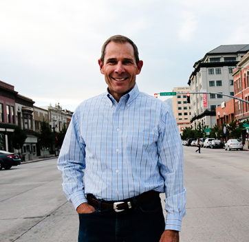 John R Curtis